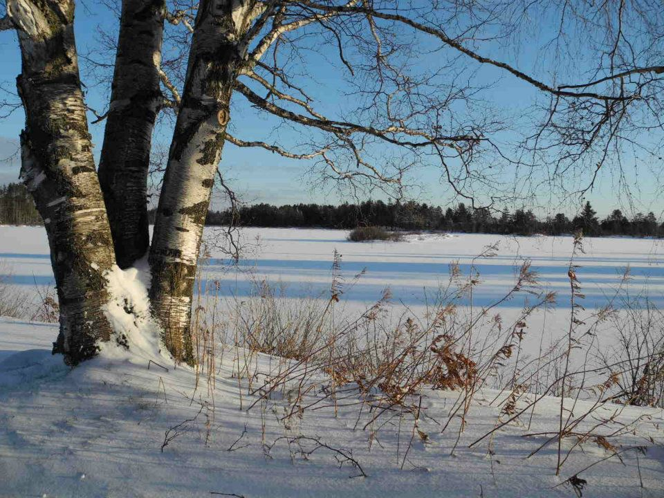 Seney National Wildlife Refuge, MI January 3, 2012 Photo: USFWS